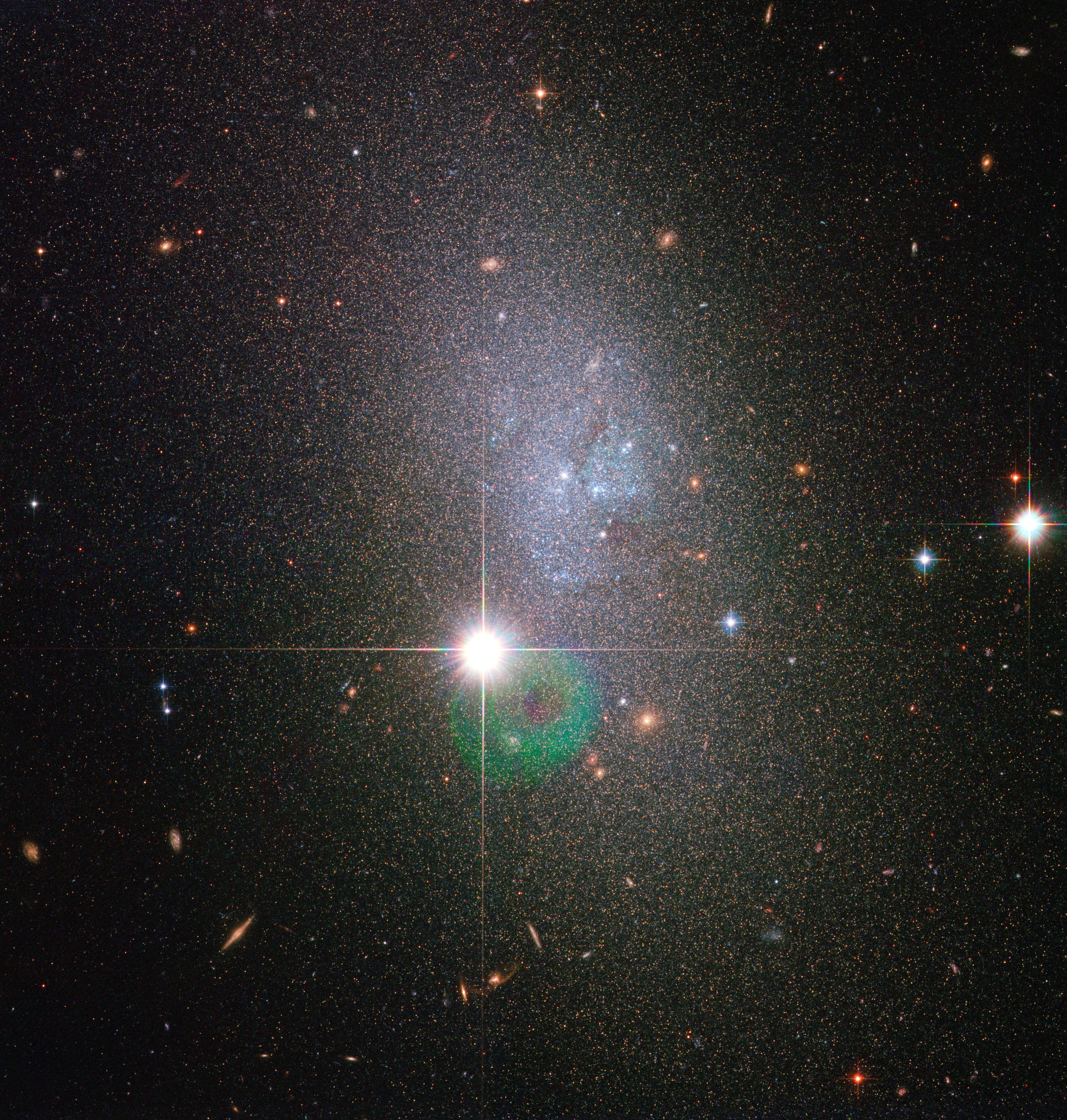 Relatively few galaxies possess the sweeping, luminous spiral arms or brightly glowing centre of our home galaxy the Milky Way. In fact, most of the Universe's galaxies look like small, amorphous clouds of vapour. One of these galaxies is DDO 82, captured here in an image from the NASA/ESA Hubble Space Telescope. Though tiny compared to the Milky Way, such dwarf galaxies still contain between a few million and a few billion stars. DDO 82, also known by the designation UGC 5692, is not without a hint of structure, however. Astronomers classify it as an Sm galaxy, or Magellanic spiral galaxy, named after the Large Magellanic Cloud, a dwarf galaxy that orbits the Milky Way. That galaxy, like DDO 82, is said to have one spiral arm. In the case of DDO 82, gravitational interactions over its history seem to have discombobulated it so that this structure is not as evident as in the Large Magellanic Cloud. Accordingly, astronomers also refer to DDO 82 and others of a similar unshapely nature as dwarf irregular galaxies. DDO 82 can be found in the constellation of Ursa Major (the Great Bear) approximately 13 million light-years away. The object is considered part of the M81 Group of around three dozen galaxies. DDO 82 gets its name from its entry number in the David Dunlap Observatory Catalogue. Canadian astronomer Sidney van den Bergh originally compiled this list of dwarf galaxies in 1959. The image is made up of exposures taken in visible and infrared light by Hubble’s Advanced Camera for Surveys. The field of view is approximately 3.3 by 3.3